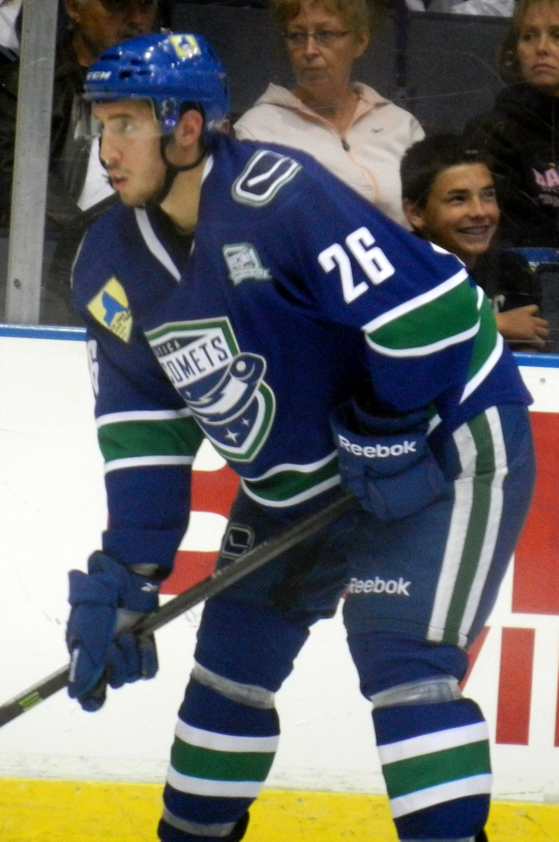 Frank Corrado playing for the American Hockey League's Utica Comets during the 2013-14 AHL season